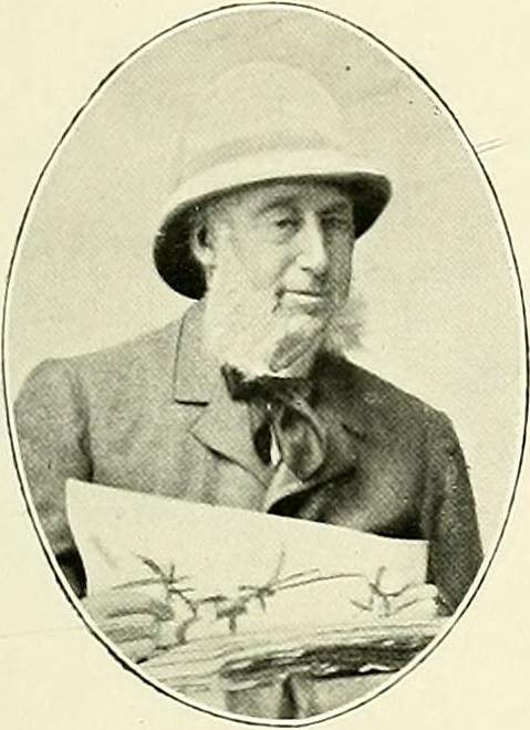 Portrait of the Swiss botanist Emile Burnat (1828-1920)